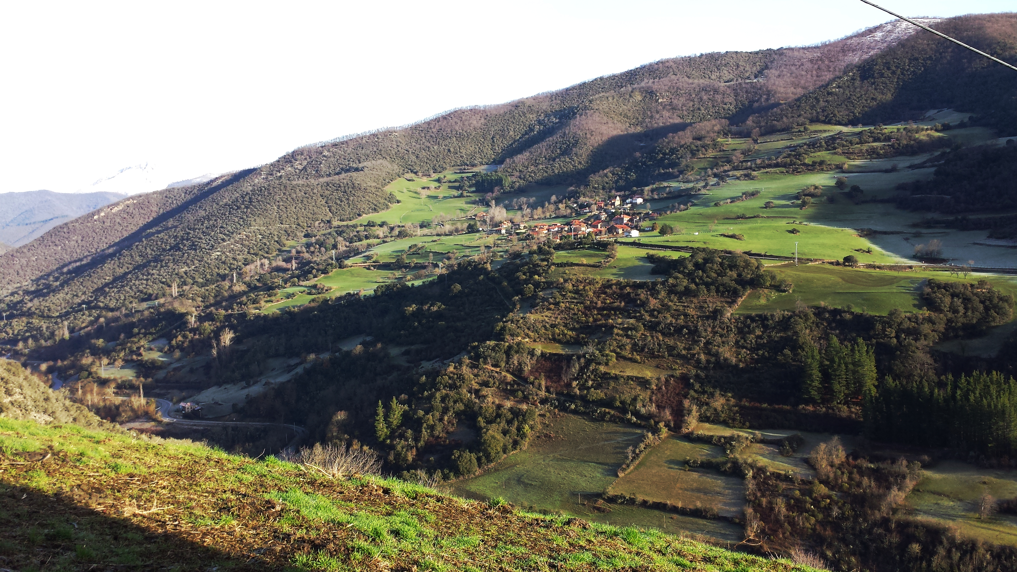 Village of Lerones in the municipality of Pesaguero (Cantabria, Spain).